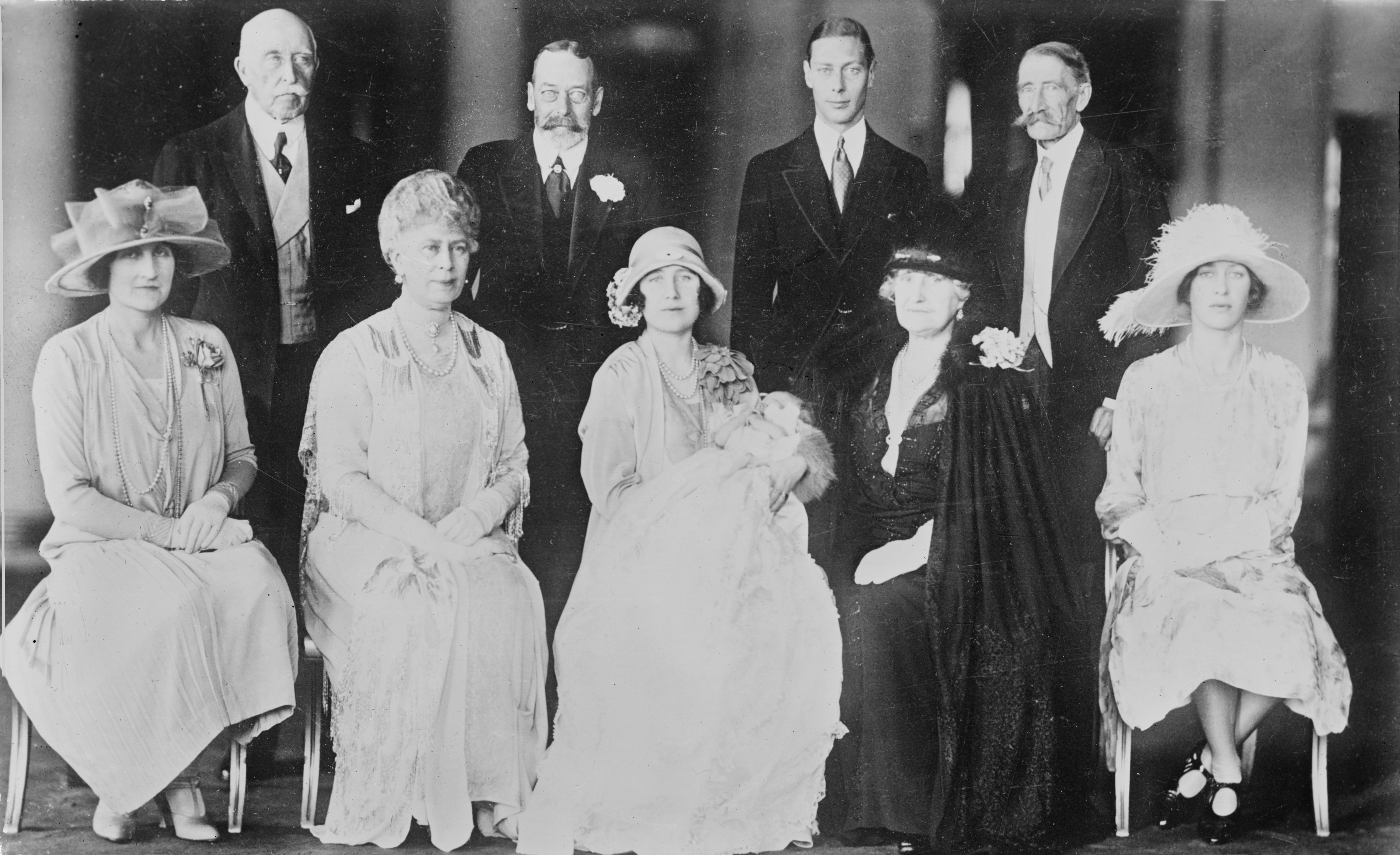 Family group photographic portrait taken after the christening of Princess Elizabeth of York, including her parents, grandparents, and godparents.